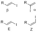 Stereo-regio isomers